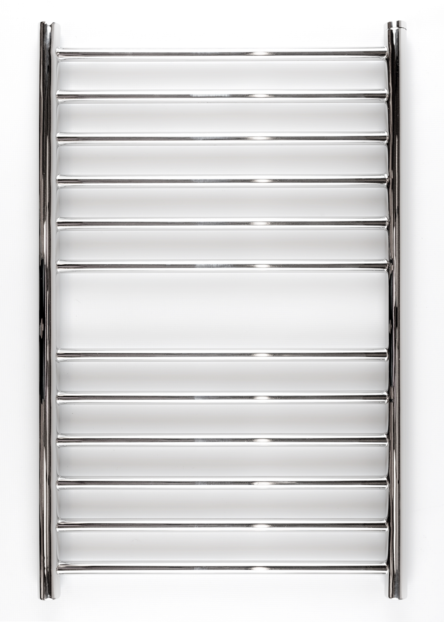 Heated towel rail